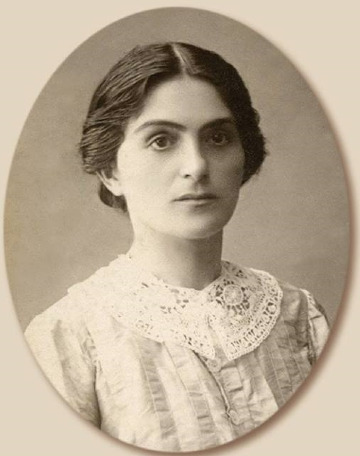 Portrait of the Georgian writer and actress Mariam Garikhuli (1883-1960) - cropped version